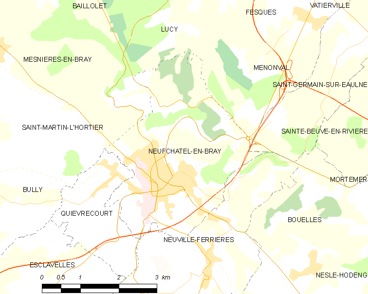 Map of French municipality Neufchâtel-en-Bray